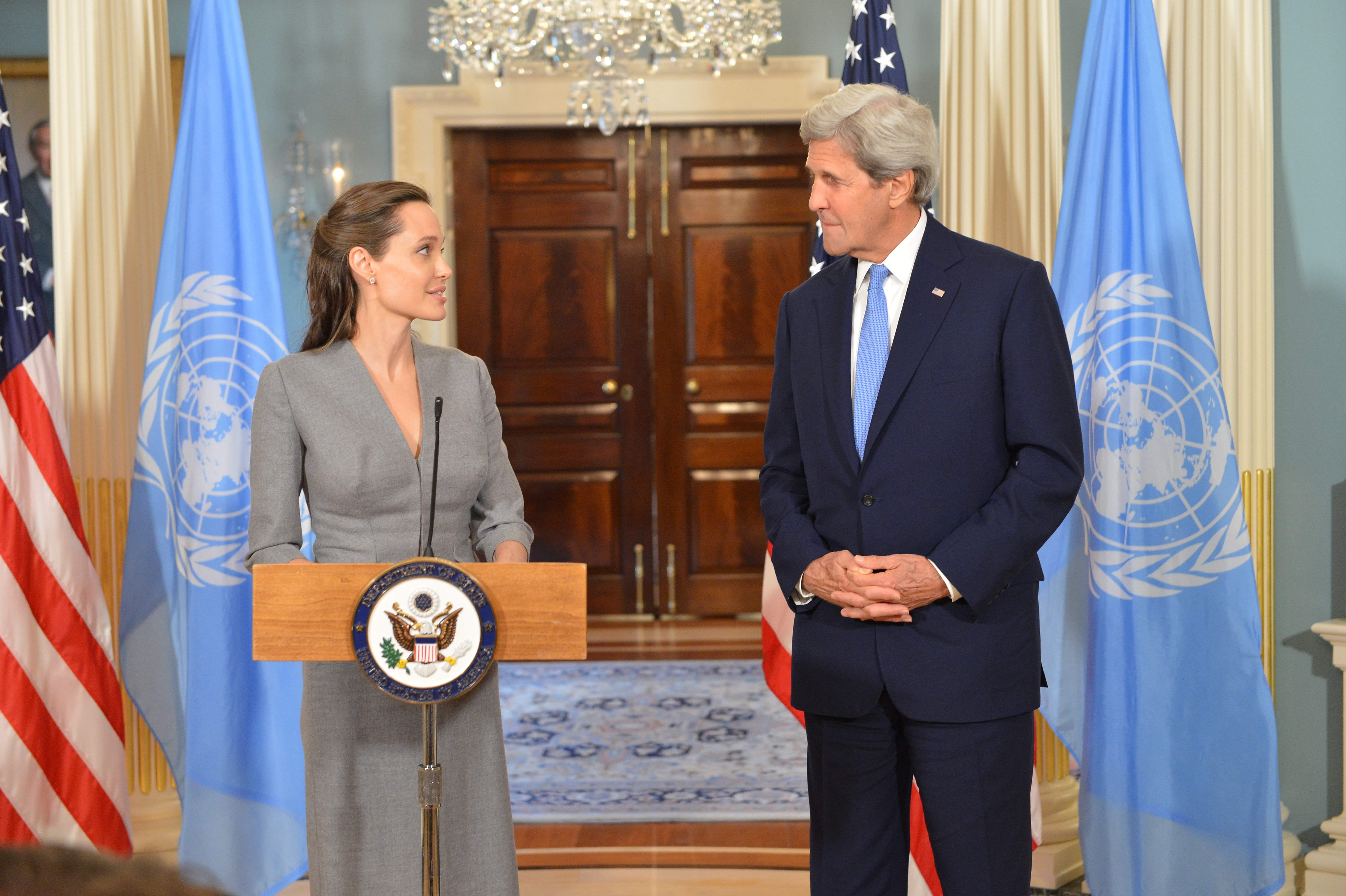 U.S. Secretary of State John Kerry and United Nations High Commissioner for Refugees Special Envoy Angelina Jolie Pitt address the press on World Refugees Day at the U.S. Department of State in Washington D.C. on June 20, 2016. [State Department photo/ Public Domain]